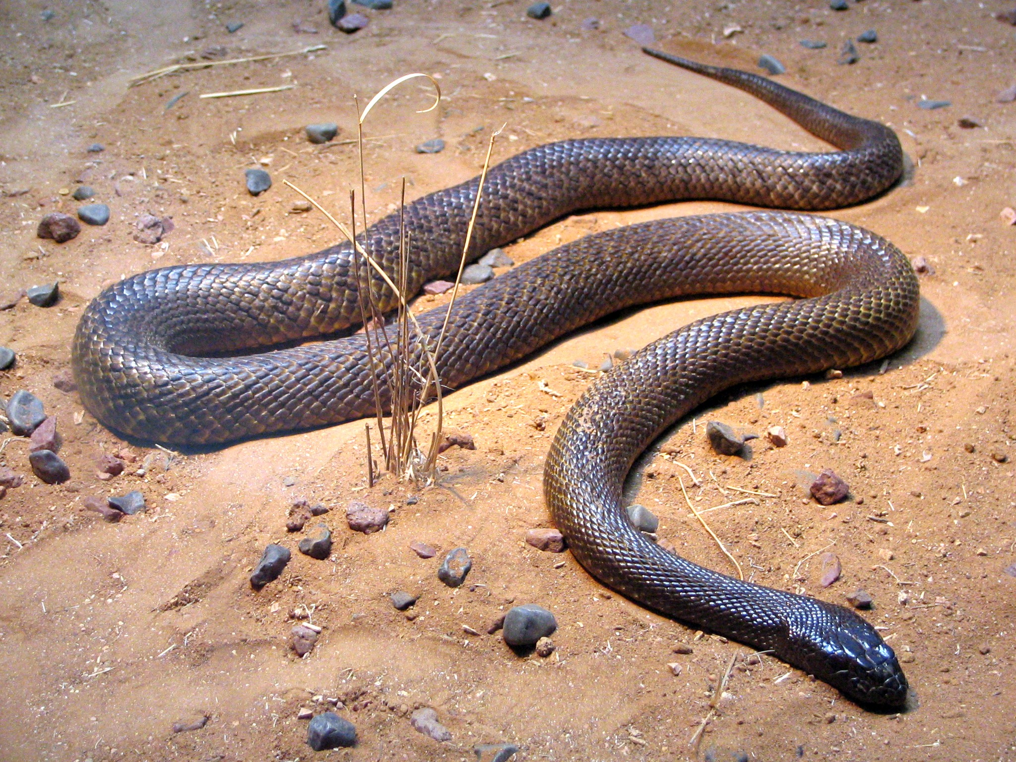 Photo of a Fierce Snake (Oxyuranus microlepidotus) taken at Australia Zoo